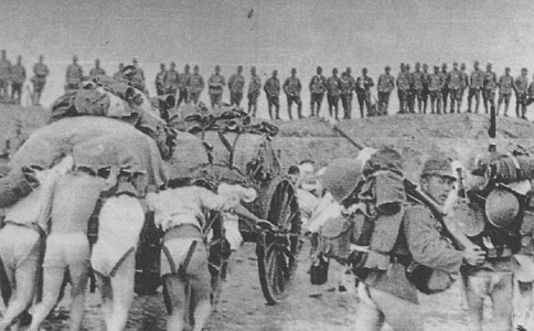 Japanese troops landing at Jinshanwei on the coast of Hangzhou Bay near Shanghai, China, Aug-Oct 1937